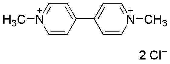 Formula of Paraquat (Methylviologine). Created by Wikifrosch on Feb. 6, 2005.